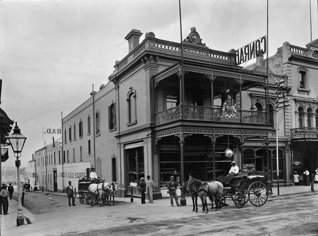 Butcher shop, north east corner of Hindley Street and Victoria Street, 1899